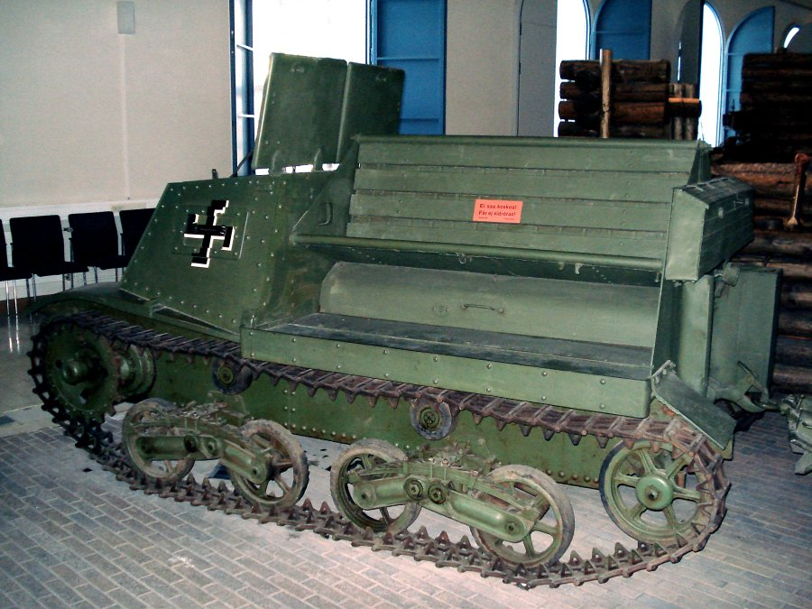 Soviet Komsomolets armored tractor, in Finnish markings, displayed in Manege Military Museum in Suomenlinna fortress, Helsinki. Photo taken on June 10, 2006. Source: Photo by me, User:Balcer.